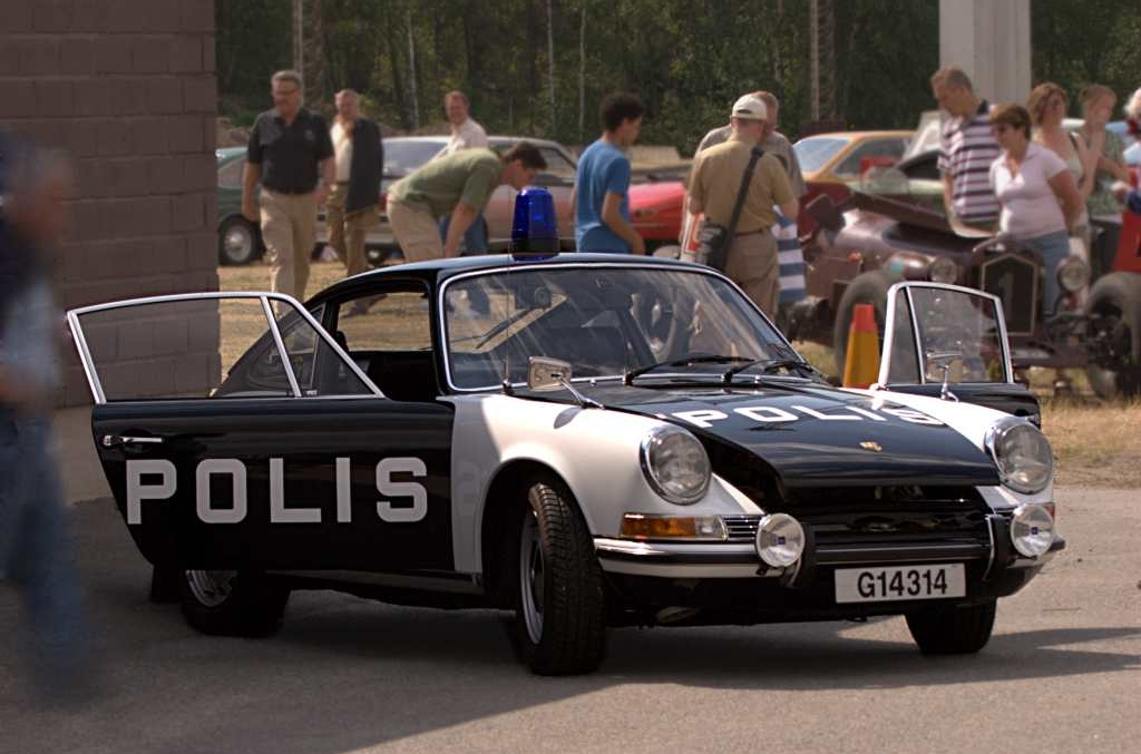 Swedish police vehicle from early seventies